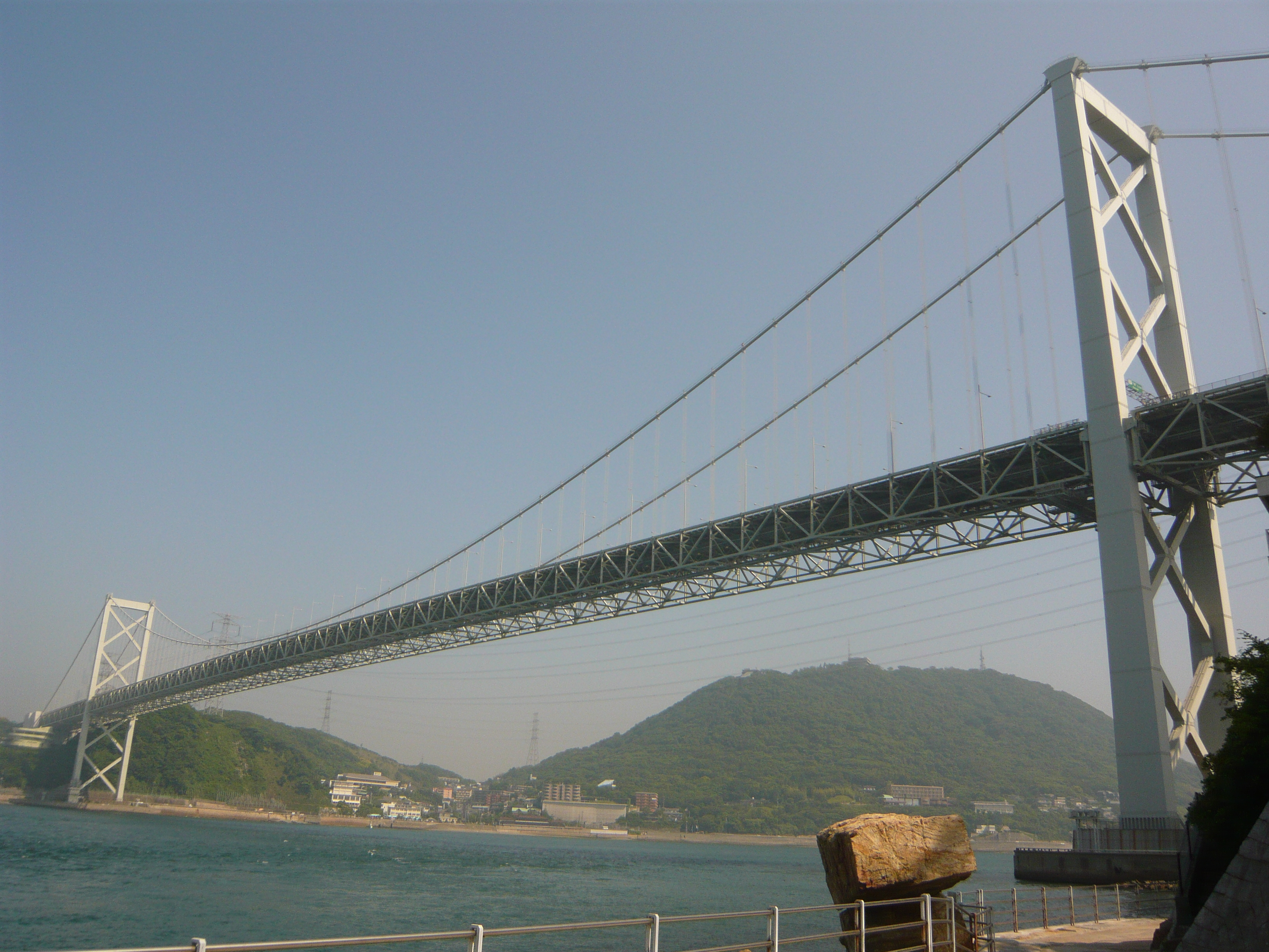 Kanmonkyo Bridge, Kitakyushu, Fukuoka, Japan